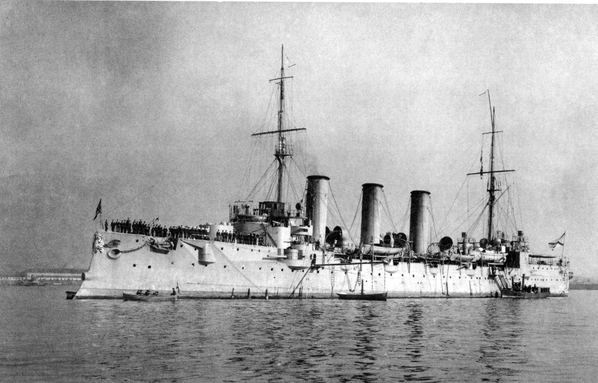 Imperial Russian cruiser Bogatyr'.